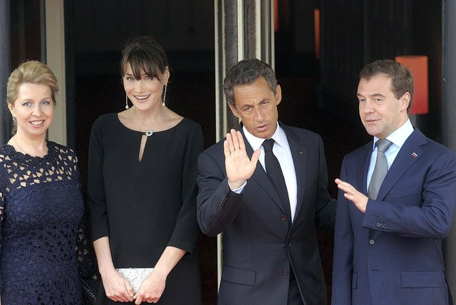 Svetlana Medvedeva, Carla Bruni, Nicolas Sarkozy, and Dmitry Medvedev before the working lunch at the G8 summit.